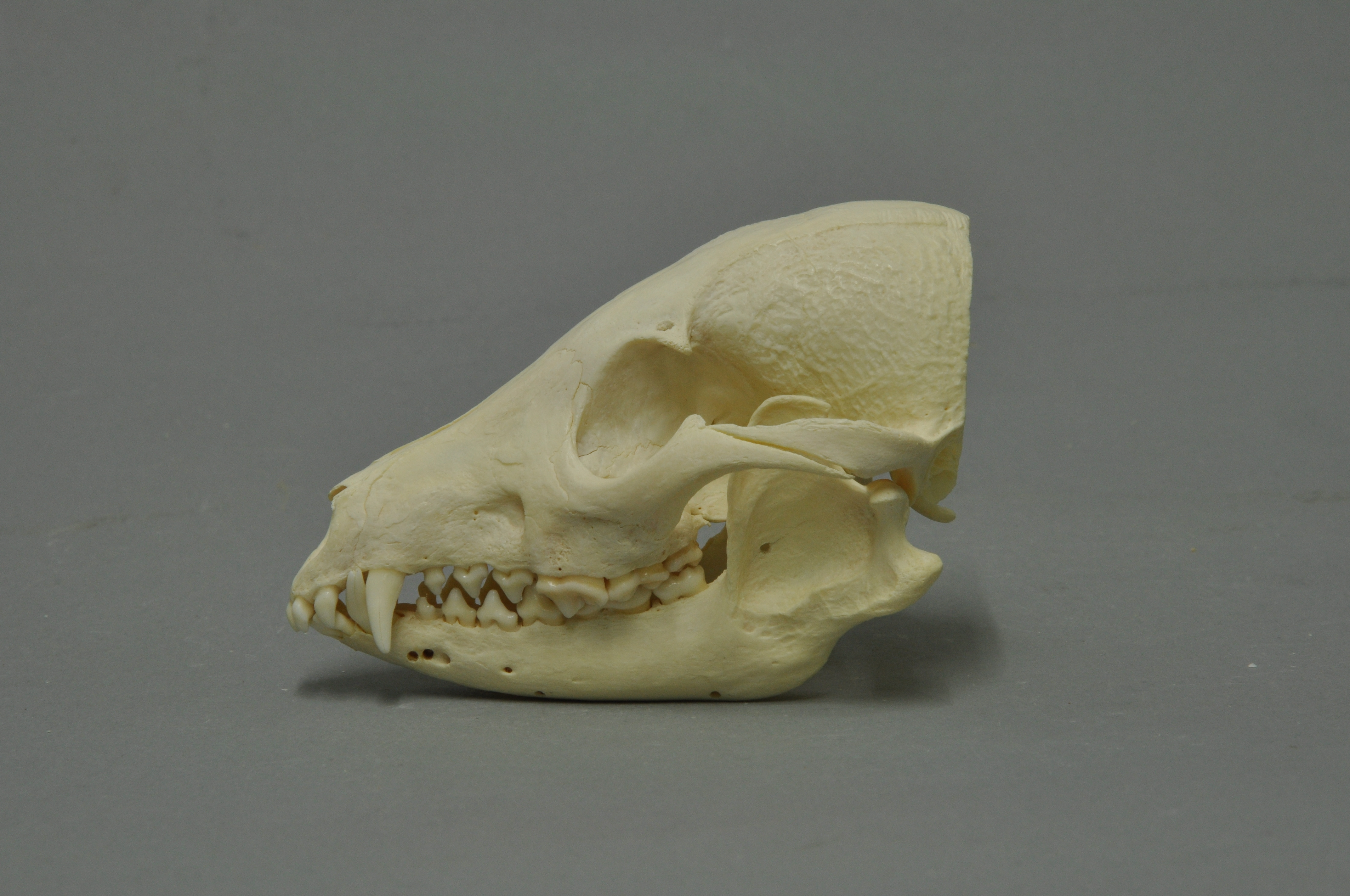 raccoon dog , skull, Coll. Museum Wiesbaden